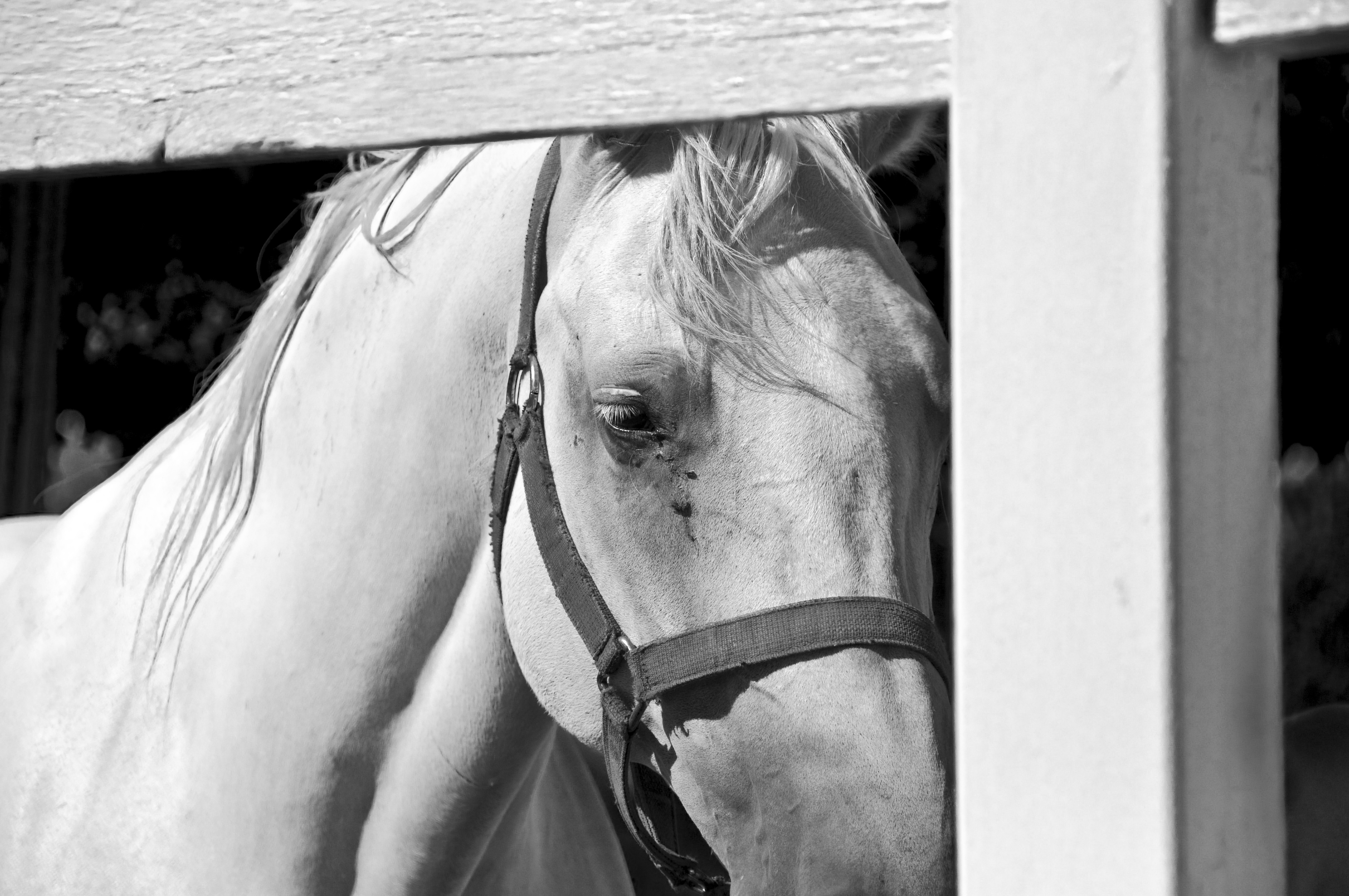 Lipizzaner mare at Lipica stud farm, Slovenia